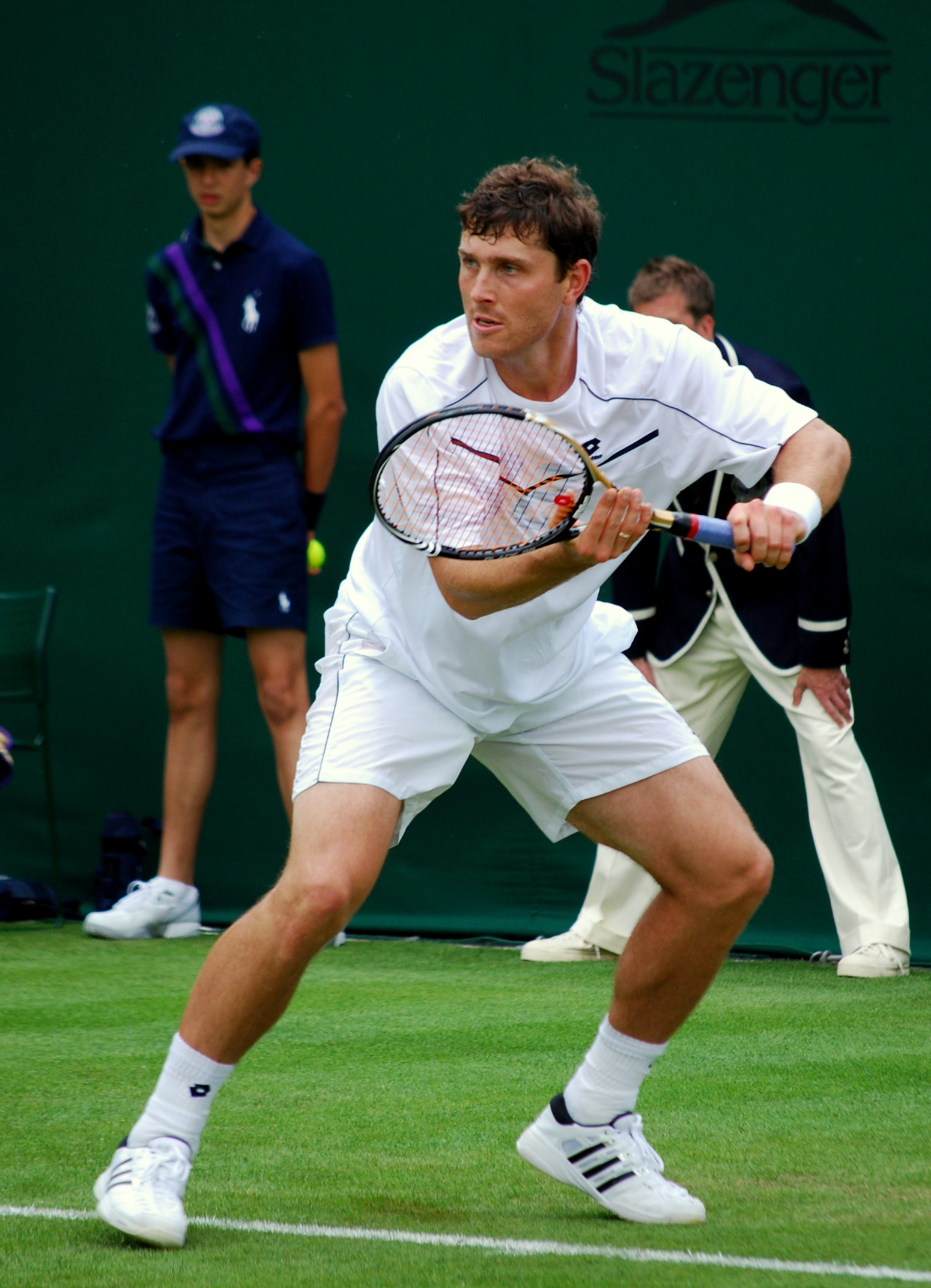 Michael Berrer during his first round match with Feliciano Lopez. Lopez won 6-4, 7-5, 6-3. Day 1 of Wimbledon 2011.